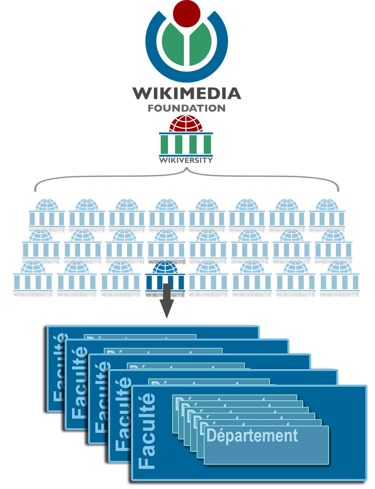 Simplified visual representation of the Wikiversity structure consists of departments grouped in faculties, in each language version of Wikiversity, under the aegis of the Wikimedia Foundation world. Links are possible from one language to the other and from all other Wikimedia projects. - This drawing is made available with logos cc-by-sa Commons license.